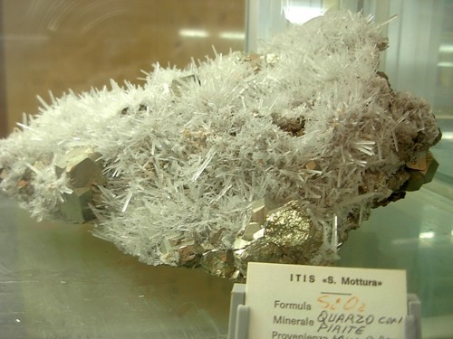 Quartz Crystal and pyrite from mine of Brosso (Italy)